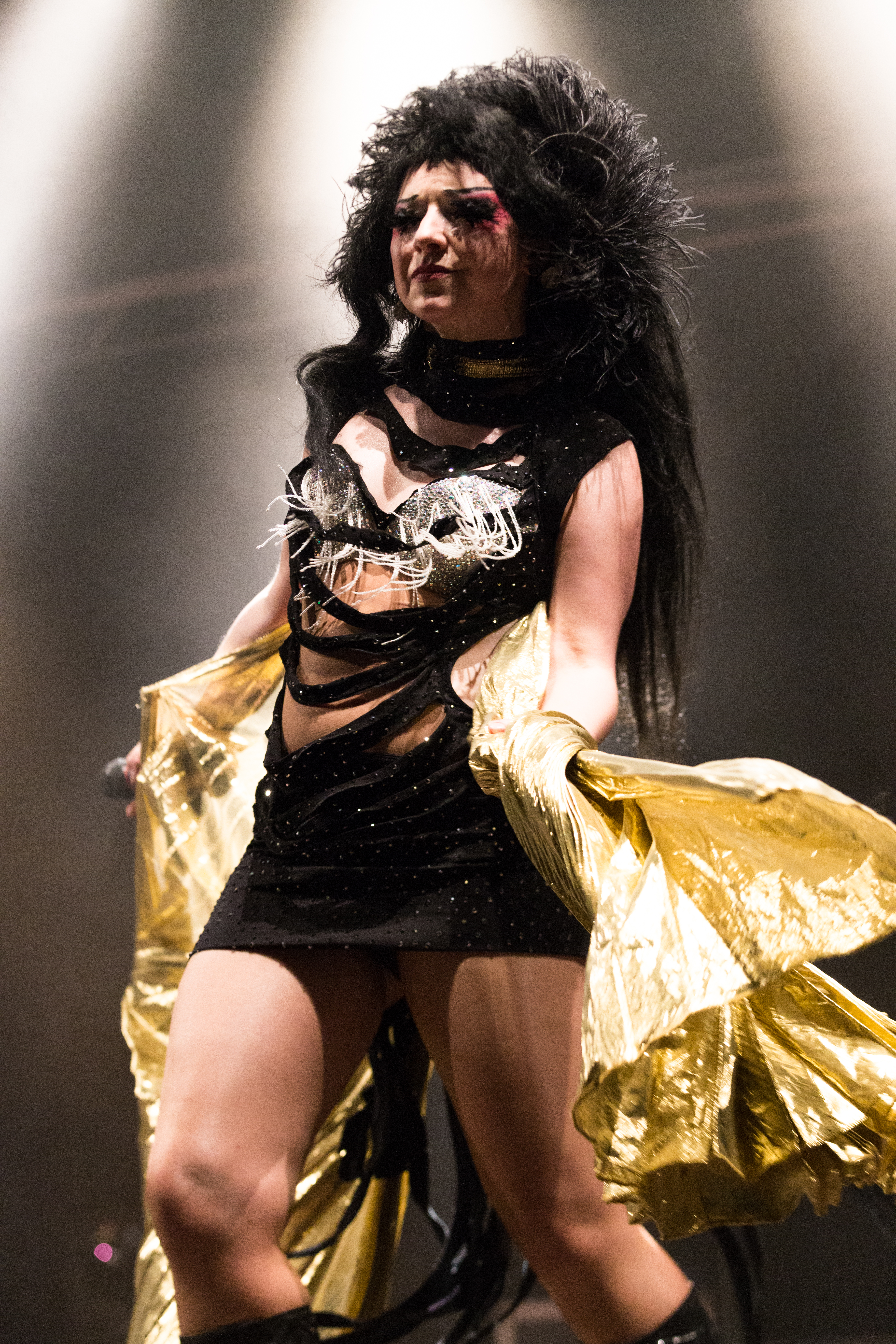 The German pop, chanson and rock duo Schneewittchen at the Wave-Gotik-Treffen 2017 in Leipzig/Germany (Venue Kohlrabizirkus).